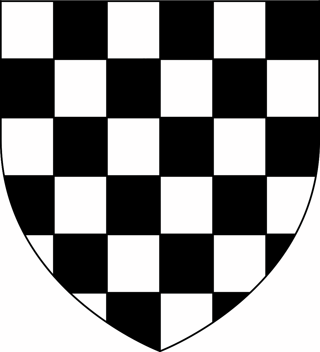 Arms of St Barbe of Ashington, Somerset and Broadlands, Hampshire and St Barbe baronets: Chequy argent and sable